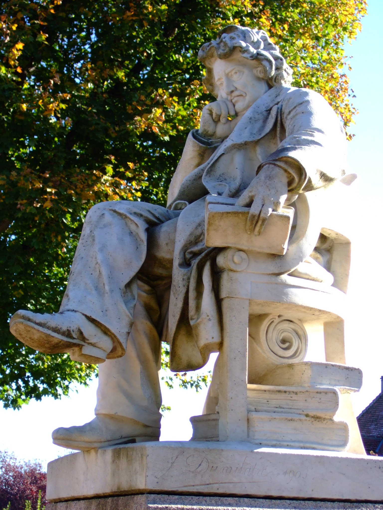 Detail of the Monument to Pierre Leroux (1903), by Alphonse Jean Dumilâtre (1844-1928), Boussac (France).